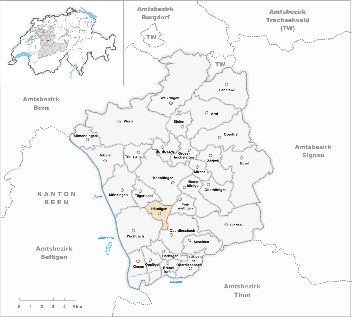 Municipality Häutligen